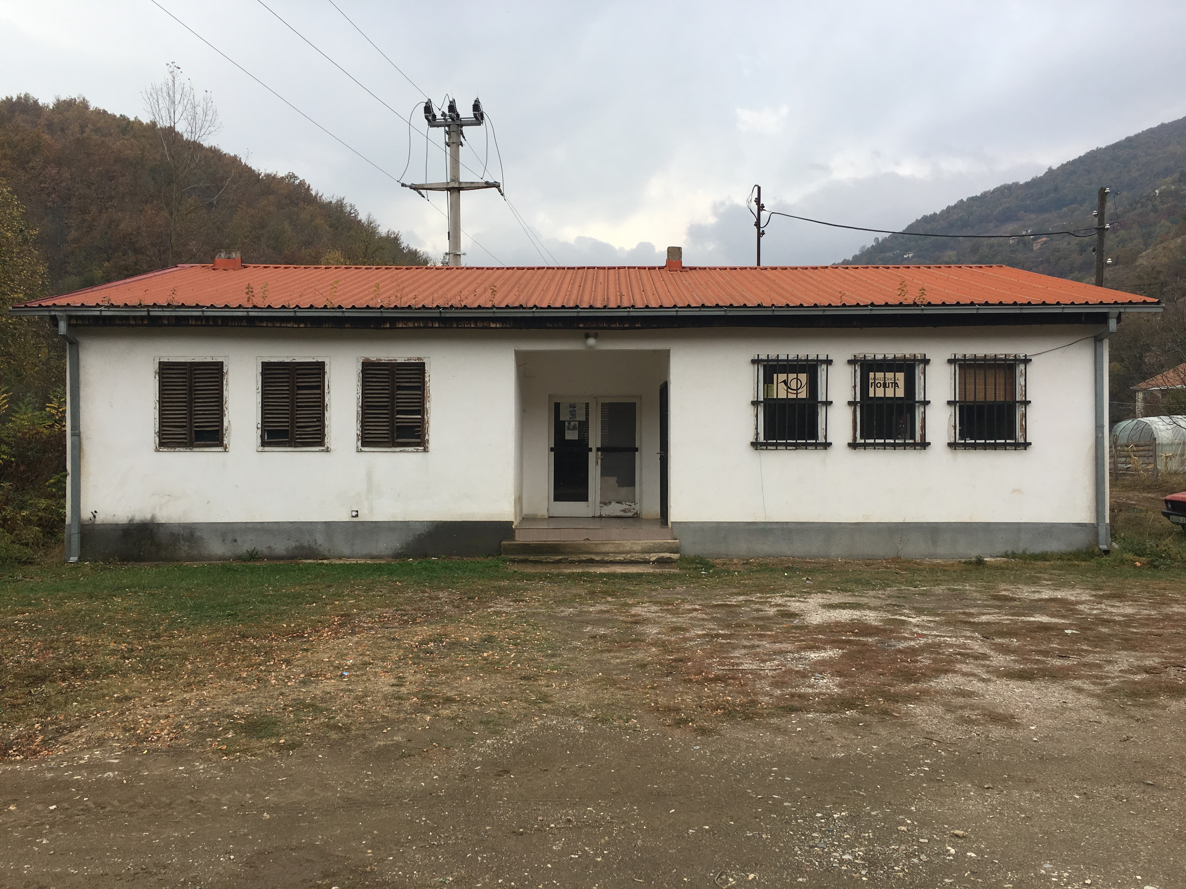 Wikiexpedition to Kopačka